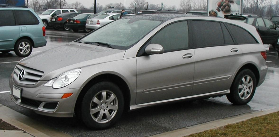 Mercedes-Benz R-Class photographed in USA.